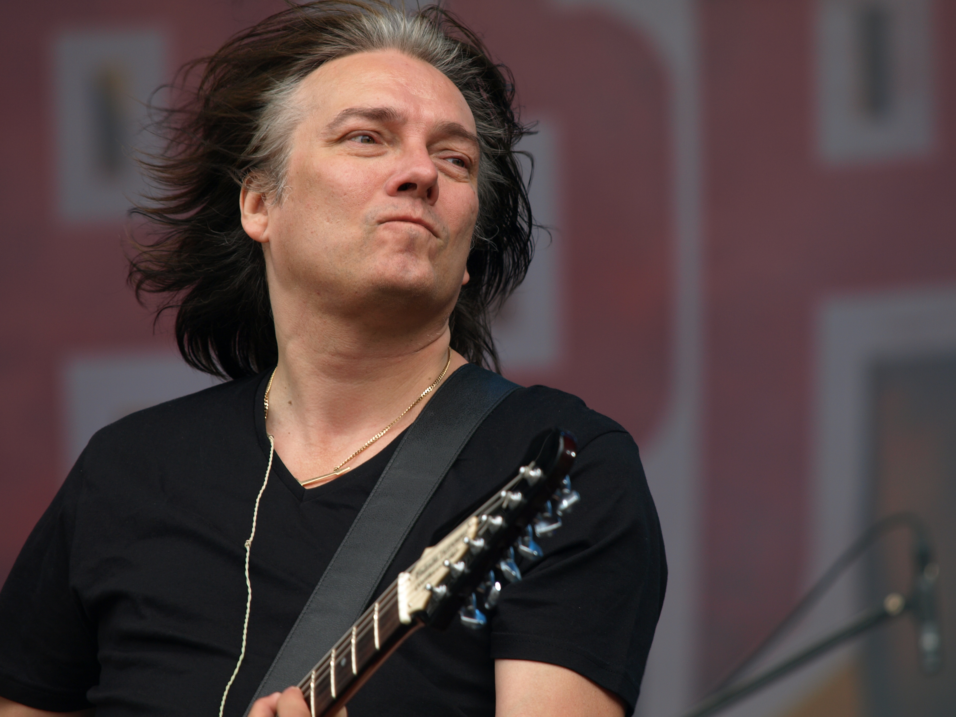 Finnish band Popeda at Provinssirock 2013; Costello Hautamäki